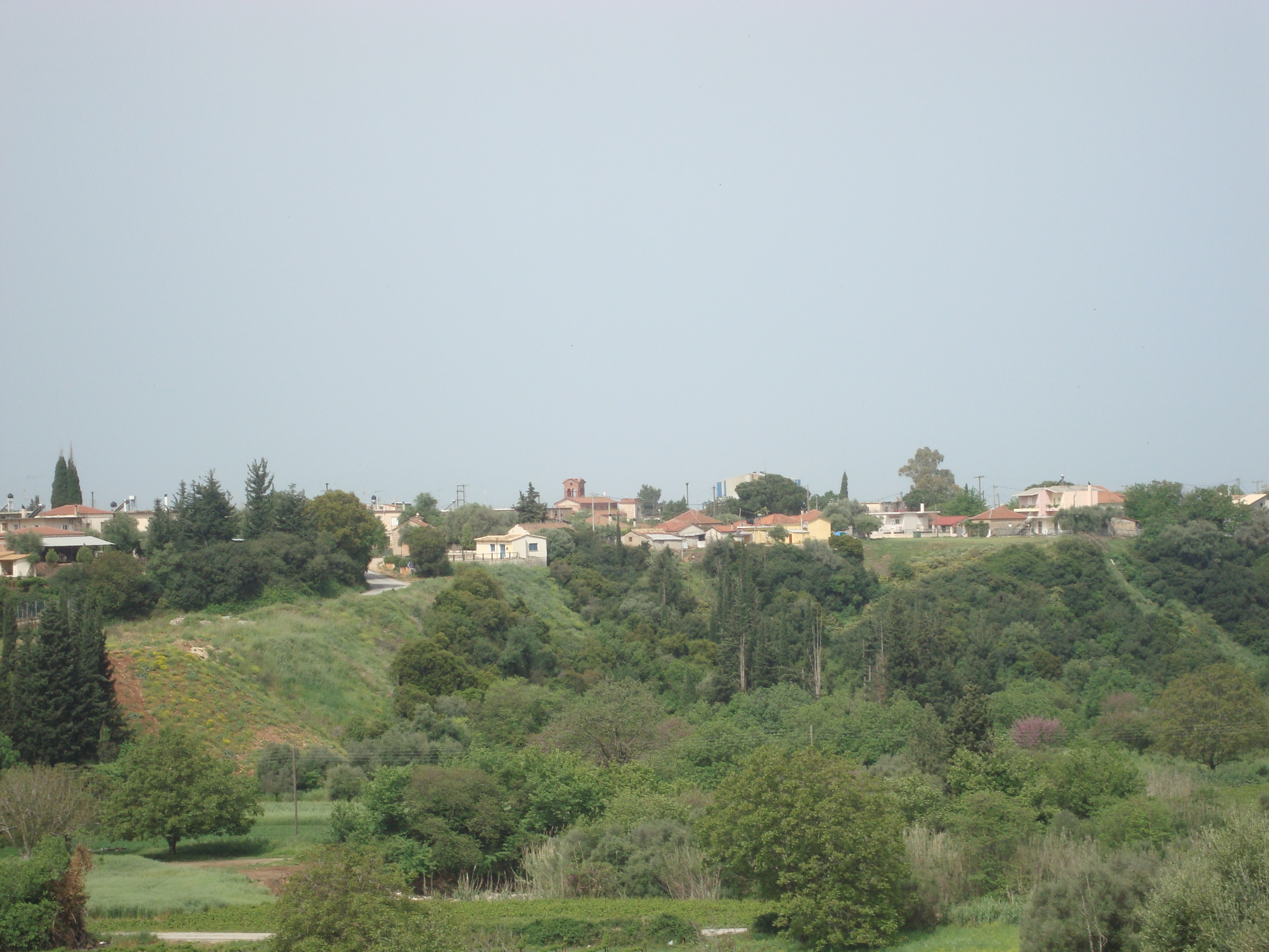 Chaikali Village in Achaea Greece